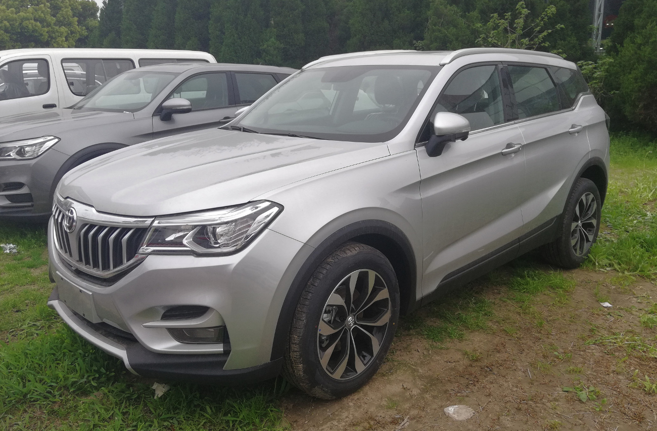 Brilliance V6 photographed in Shanghai, China.